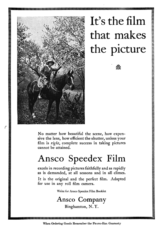 Advertisement for Ansco products from a 1920 magazine, public domain: Speedex Film